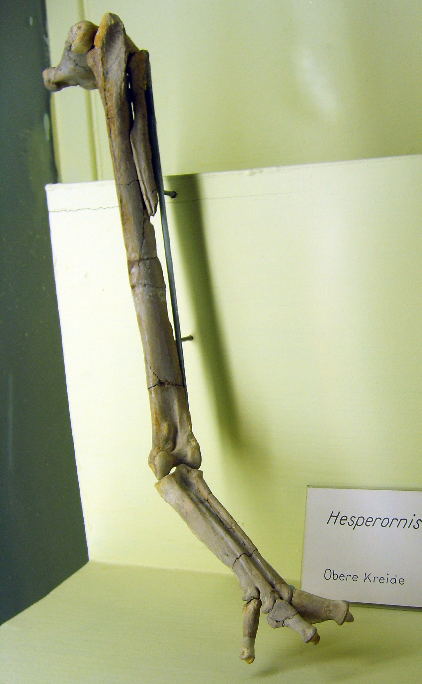 Left leg of Hesperornis (Hargeria) gracilis, Naturkunde Museum, Berlin.